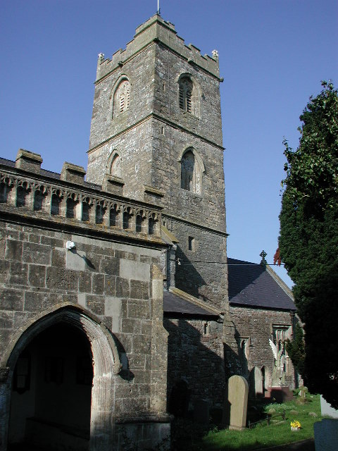 Redwick, St Thomas's Church. The church porch has a marker depicting the level of flood water in the "Great Flood" of 1606. This is now thought to have been a tsunami. The church contains a fine Victorian pipe organ and two of the oldest church bells working in the country (cast in Bristol c.1350-80).